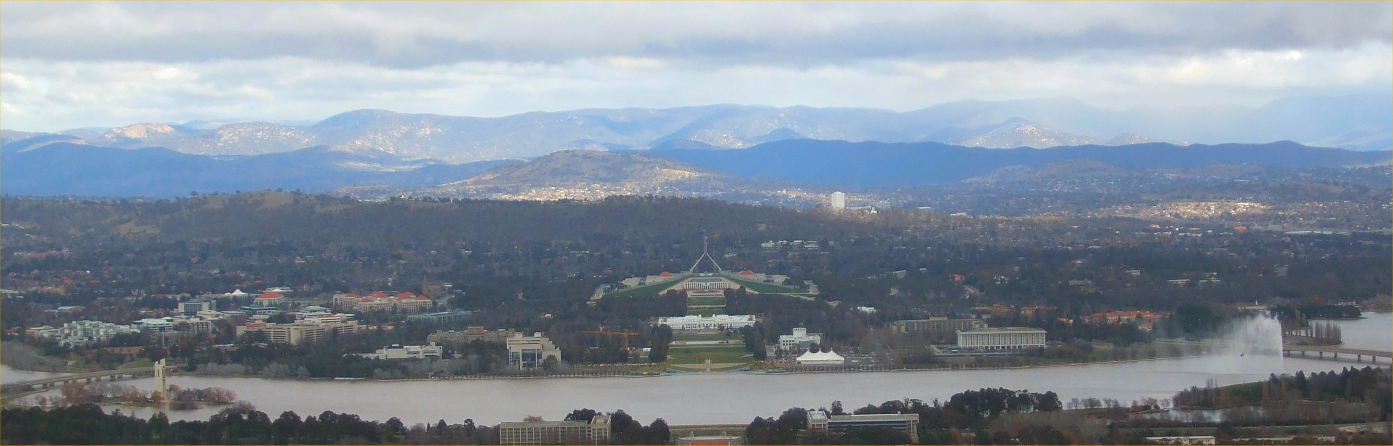 A picture of Parliament House from Mt. Ainslie and Lake Burley Griffin